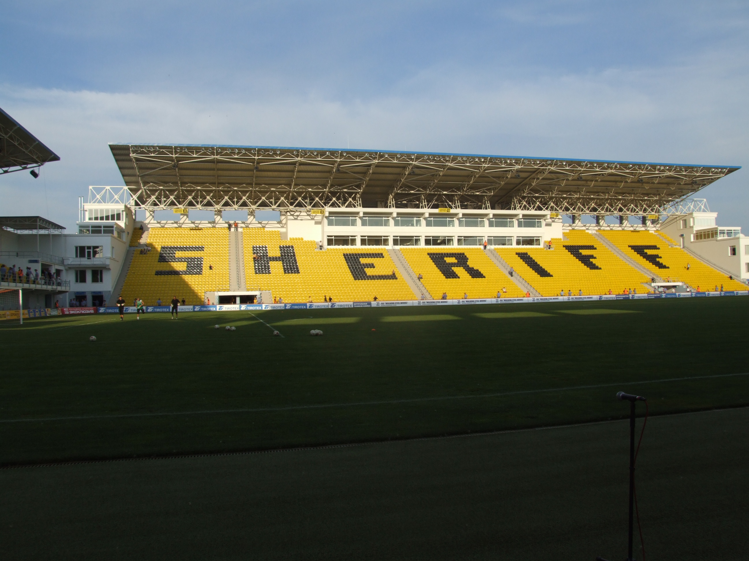 stadium of FC Sheriff, Tiraspol - inside view